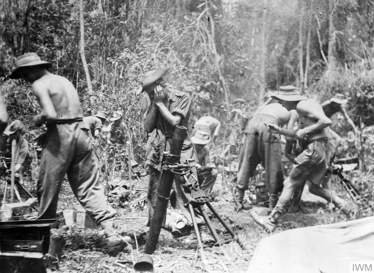 British 3-inch mortars supporting the 19th Indian Division's advance along the Mawchi Road, east of Toungoo in Burma, 1944. The Battle of Imphal-Kohima March - July 1944: British 3-inch mortar detachments support the 19th Indian Division's advance along the Mawchi Road, east of Toungoo, Burma. The mortar proved the most effective weapon in jungle warfare.